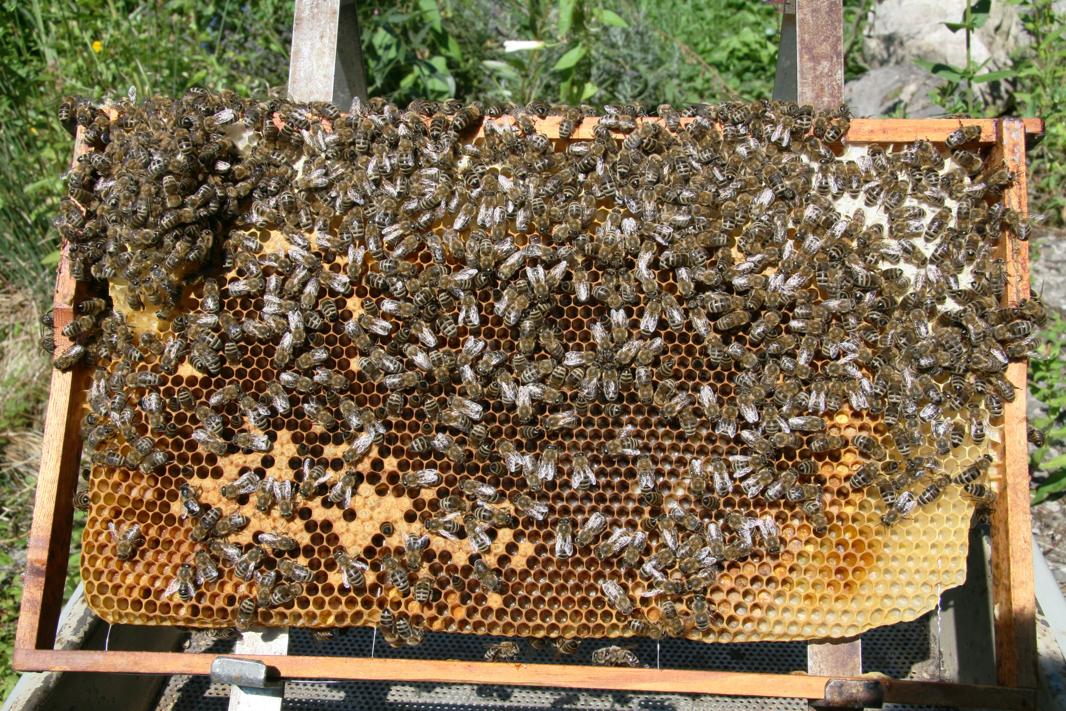 Bees on a honeycomb. The image shows a brood comb. In the middle of the comb some white grubs can be seen in their cells. Below left: Sealed brood cells shortly before the hatching of worker bees. Above right: The light-colored cells are sealed honey cells. Below, left and right: The yellow and ocher cells contain pollen.